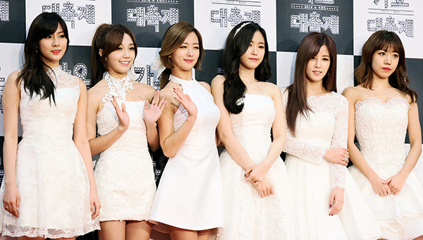 A Pink at the 2014 KBS Song Festival red carpet. Left to right: Hayoung, Eunji, Bomi, Naeun, Chorong and Namjoo.